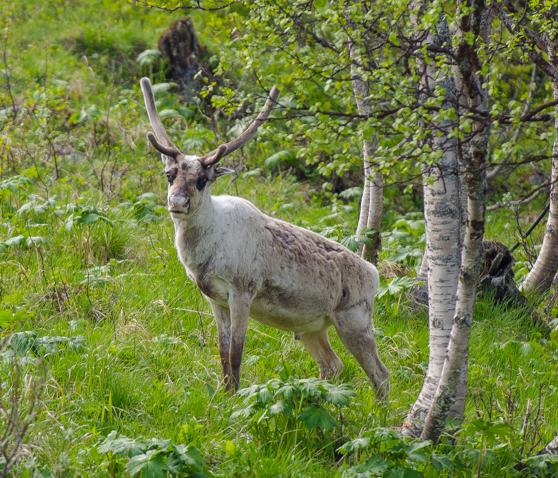 Reindeer (Rangifer tarandus) in Ljungdalen, Berg Municipality, Jämtland County, Sweden.